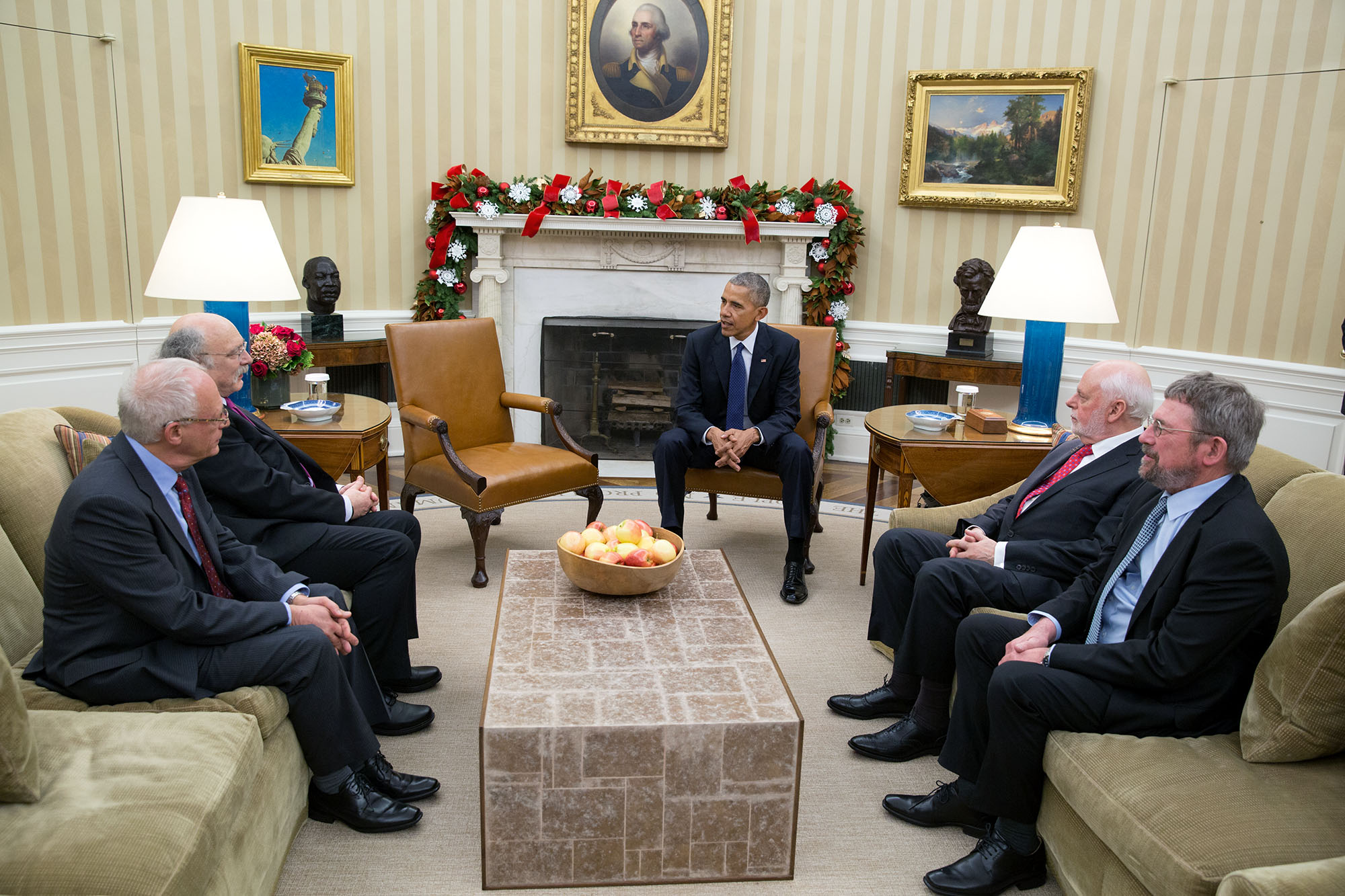 President Barack Obama greets the 2016 American Nobel Prize winners in the Oval Office, Nov. 30, 2016. From left are: Oliver Hart, Laureate of the 2016 Nobel Prize in Economic Sciences, from Harvard University, F. Duncan M. Haldane, Laureate of the 2016 Nobel Prize in Physics from Princeton University, Sir J. Fraser Stoddart, Laureate of the 2016 Nobel Prize in Chemistry from Northwestern University, and J. Michael Kosterlitz, Laureate of the 2016 Nobel Prize in Physics, from Brown University. (Official White House Photo by Pete Souza)